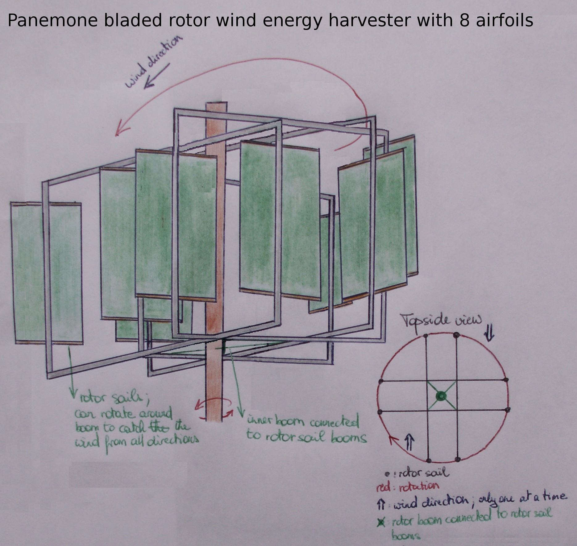 A hand drawn schematic of a panemone bladed rotor wind energy harvester. The schematic was made on an image at